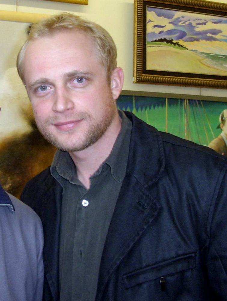 Actor Piotr Adamczyk.